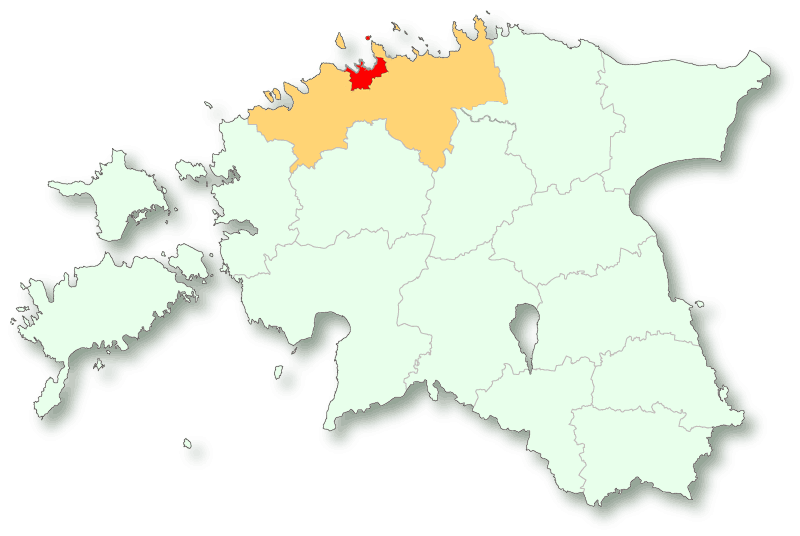 Tallinn location